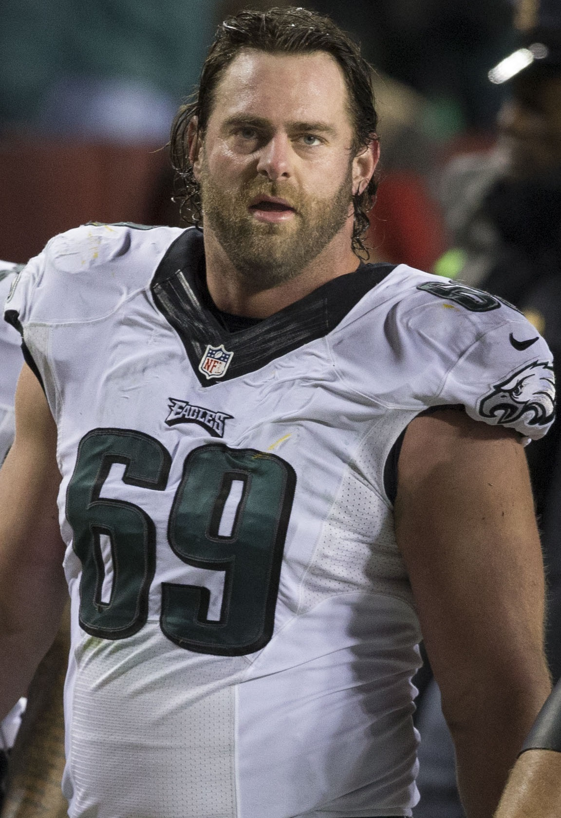 Eagles at Redskins 12/20/14